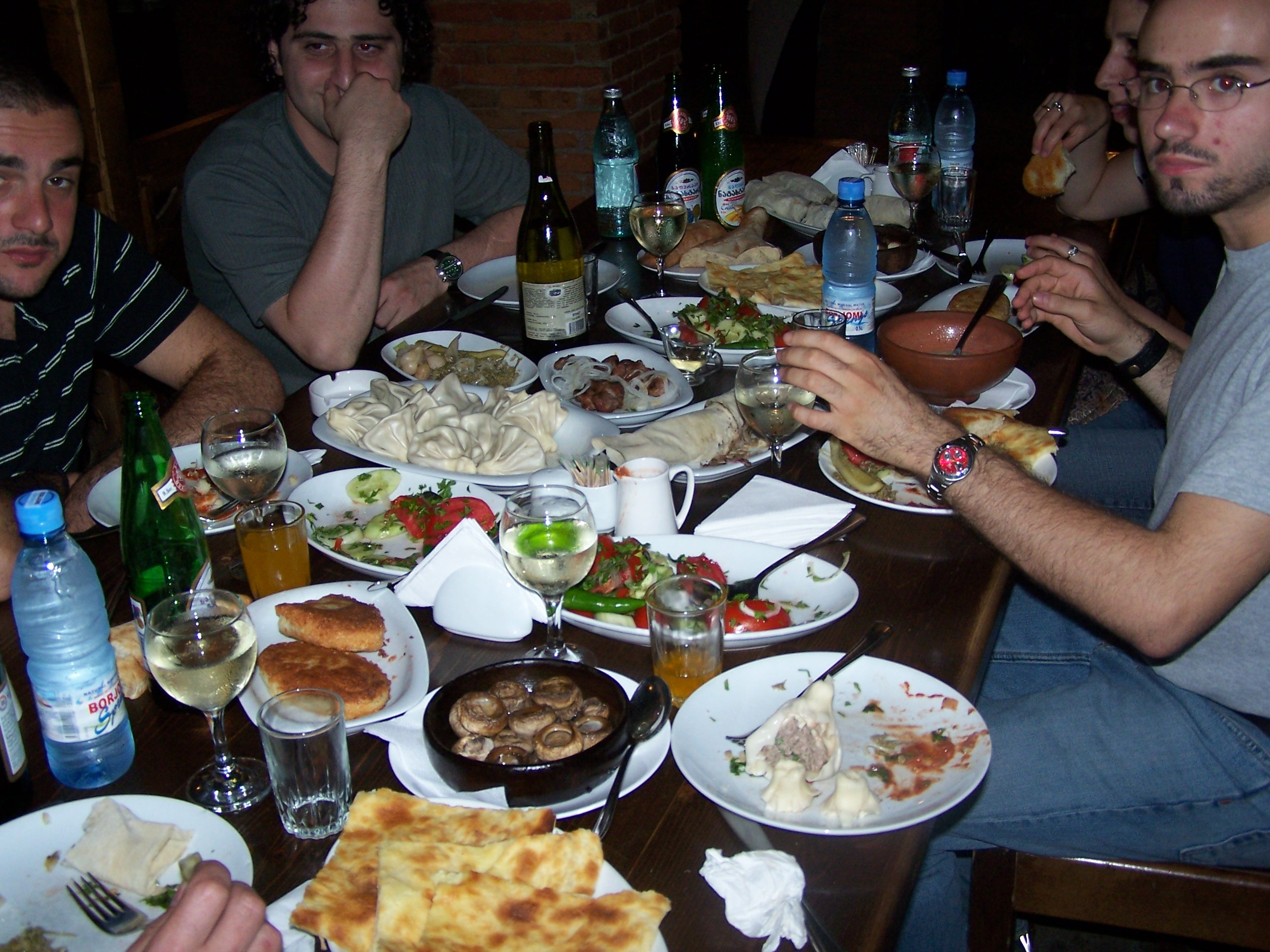 ...finally after the fast